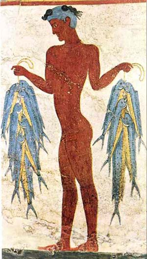 Fresco of a fisherman with Coryphaena hippurus from the bronze age excavation of the minoan town Akrotiri on the greek island of Santorini.